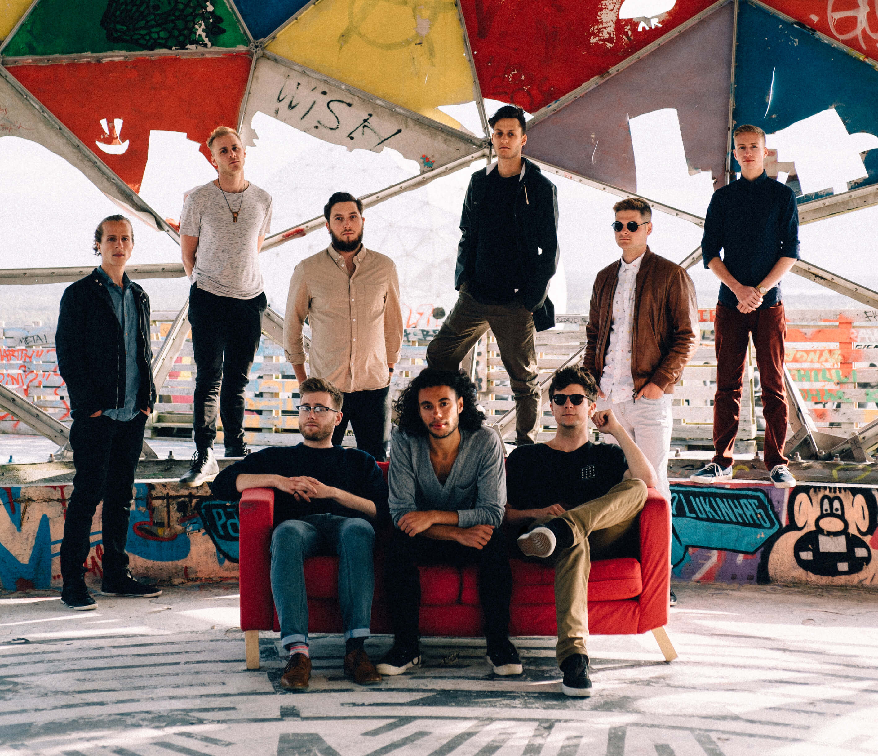 Busty and the Bass in 2017